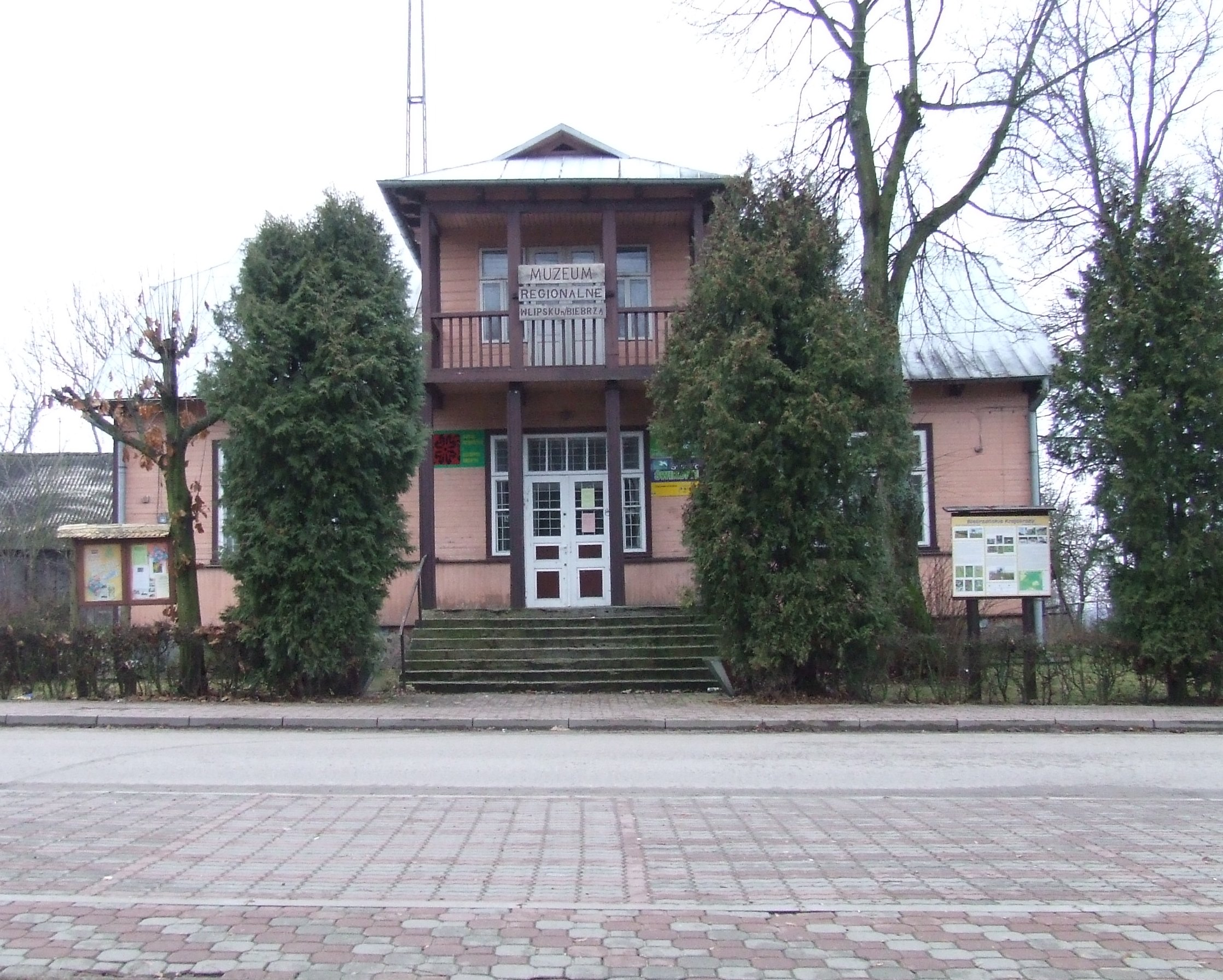 Budynek starego ratusza / old town hall building